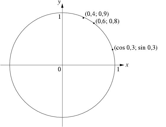 Circle and parametric equation example. Points [cos(0.3); sin(0.3)] and [0.6; 0.8] are on the circle, while [0.4; 0.9] is inside the circle.